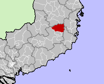 Lac Duong District, Lam Dong Province, Vietnam.